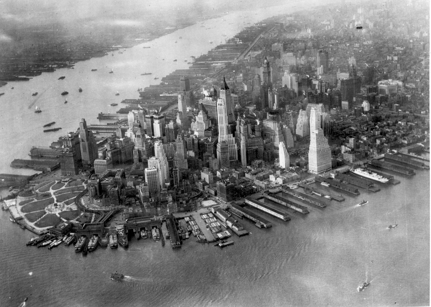 Aerial view of the tip of Manhattan, New York, United States ca. 1931. Note that the Cities Service Building (now known as the American International Building), which would become lower Manhattan's tallest building in 1932, is only partially completed.